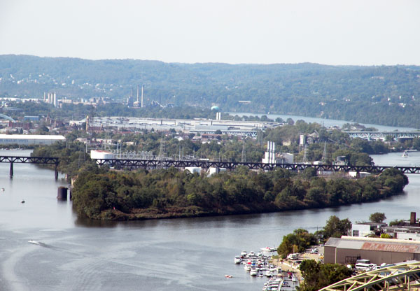 Picture of Brunot Island, on the Ohio River, on September 18, 2010. The island is part of the city of Pittsburgh, Pennsylvania. The picture was taken on Mount Washington near the Point of View sculpture. The Brunot Island Generating Station can be seen, as can a portion of the Ohio Connecting Railroad Bridge that crosses over the island.